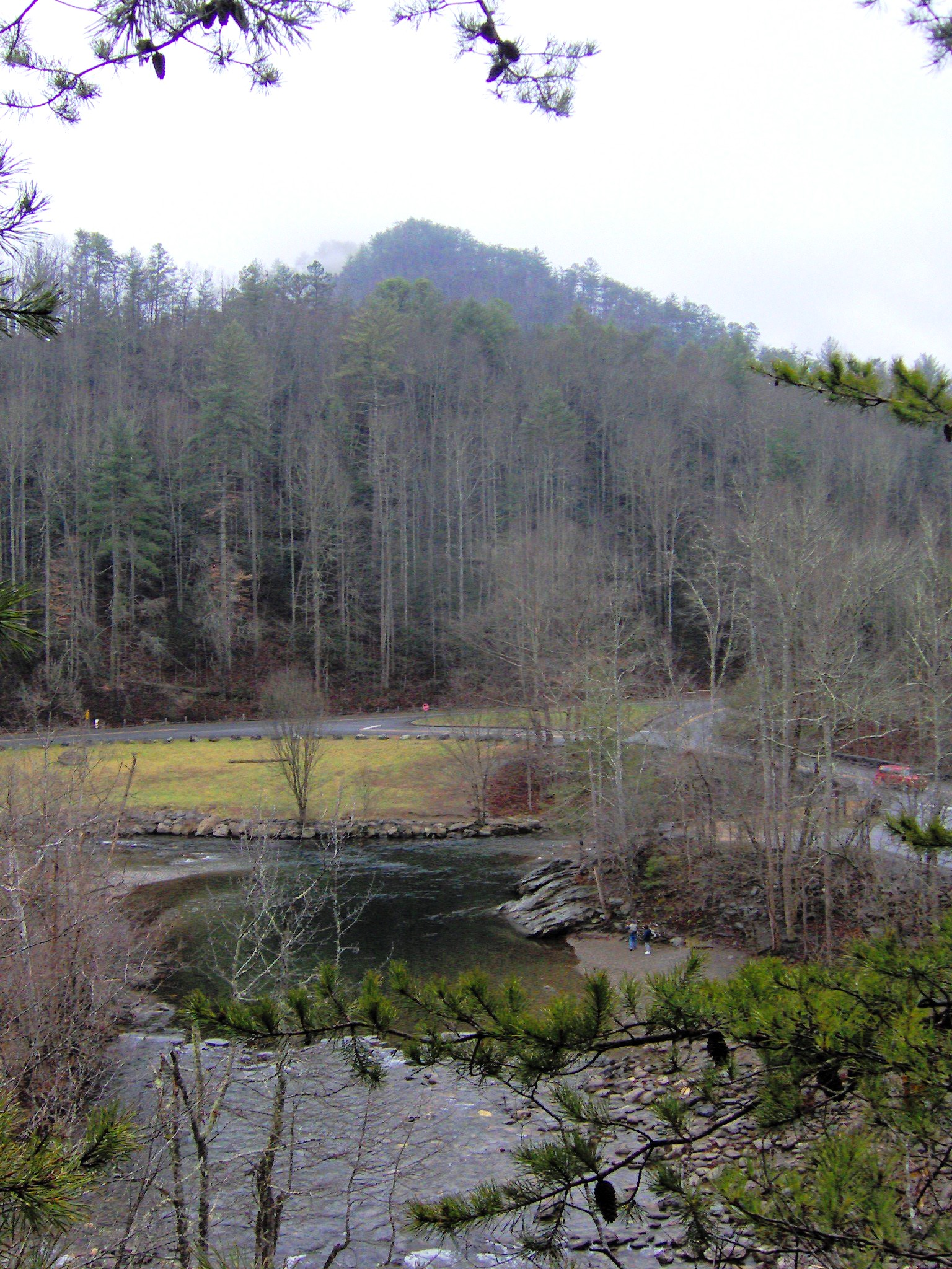 The Townsend Y, viewed from the Roundtop Trail in the Great Smoky Mountains of Tennessee, in the southeastern United States. The Y, formed by the confluence of Little River and the Middle Fork of Little River, is a popular swimming area in warmer months. The know in the distance is part of Lumber Ridge, a low ridge opposite the west flank of Meigs Mountain.